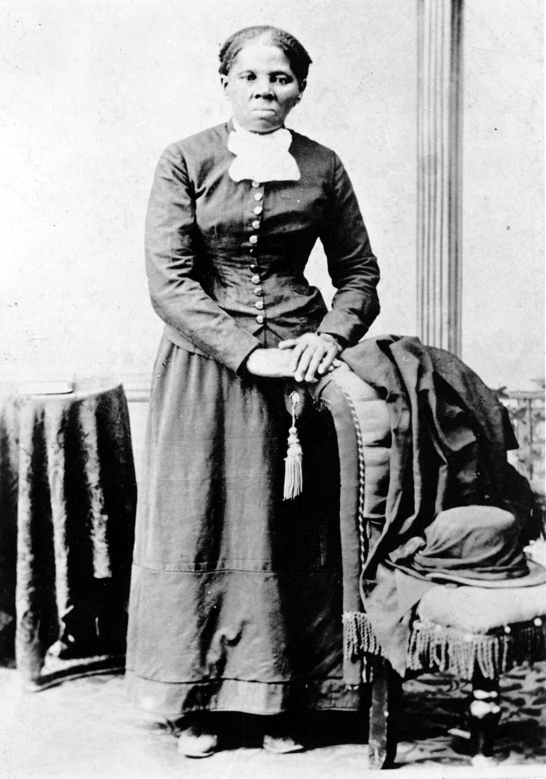 Harriet Tubman (1820–1913) DescriptionAmerican writer, suffragist, nurse and human rights activistDate of birth/death 1820 10 March 1913Location of birth/death Dorchester County AuburnAuthority control : Q102870 VIAF: 43120064 ISNI: 0000 0000 7328 1916 ULAN: 500340125 LCCN: n79106623 NAID: 10581353 WorldCat creator QS:P170,Q102870 Information from Library of Congress TUBMAN, HARRIET. Photograph by H. B. Lindsley. [No date found on caption card. Dates of LOT 5910: 1850-1900] Location: LOT 5910 [not found 1998] Reproduction Number: LC-USZ62-7816